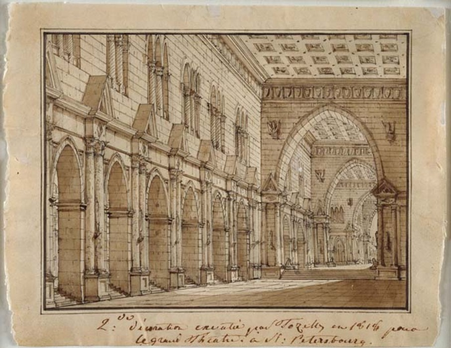 Gothic Hall. Scenography drawing by Angelo Toselli for the Bolshoi Theater (Saint Petersburg)